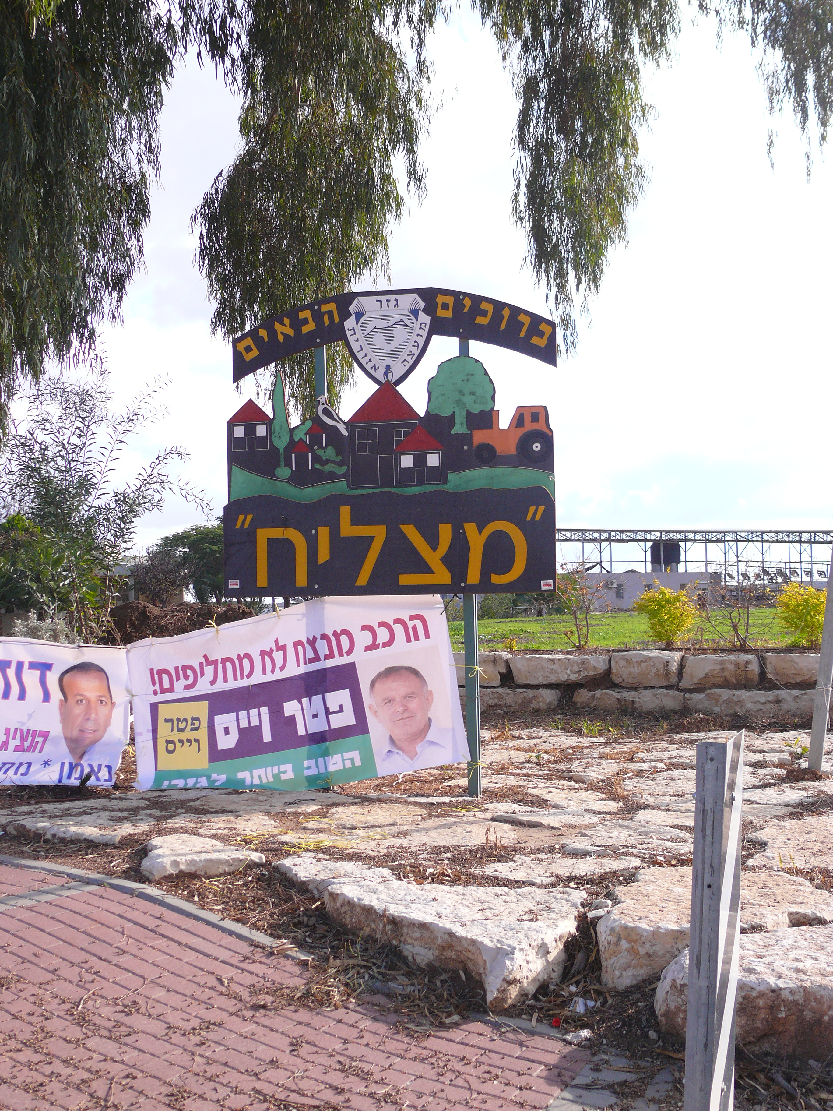 "Matzliach" village in Israel